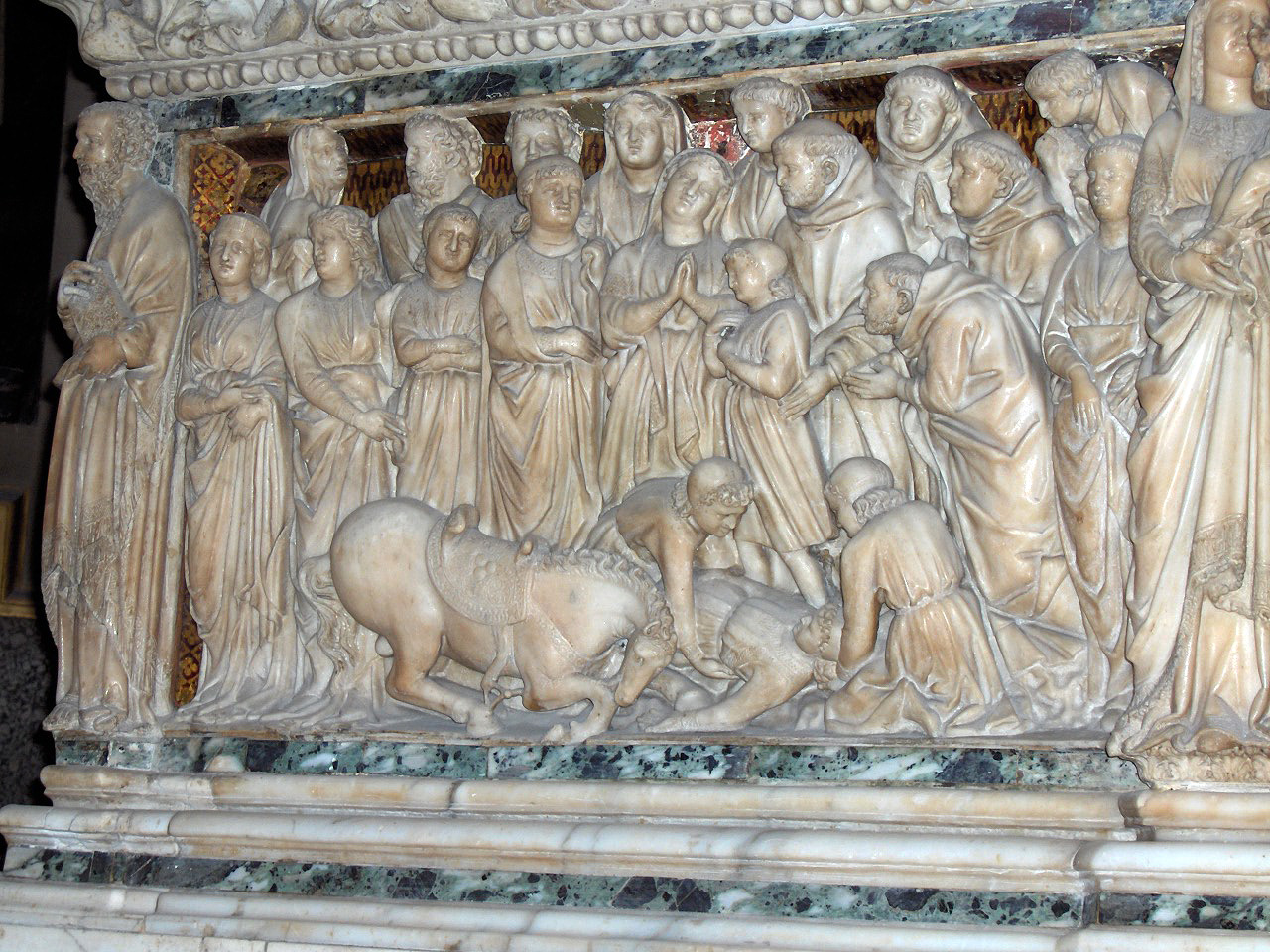 "St Dominic resurrects Napoleone Orsini after a fall from his horse and delivers him to his mother" by Nicola Pisano and assistants; Ark of Saint Dominic, Basilica of Saint Dominic, Bologna, Italy